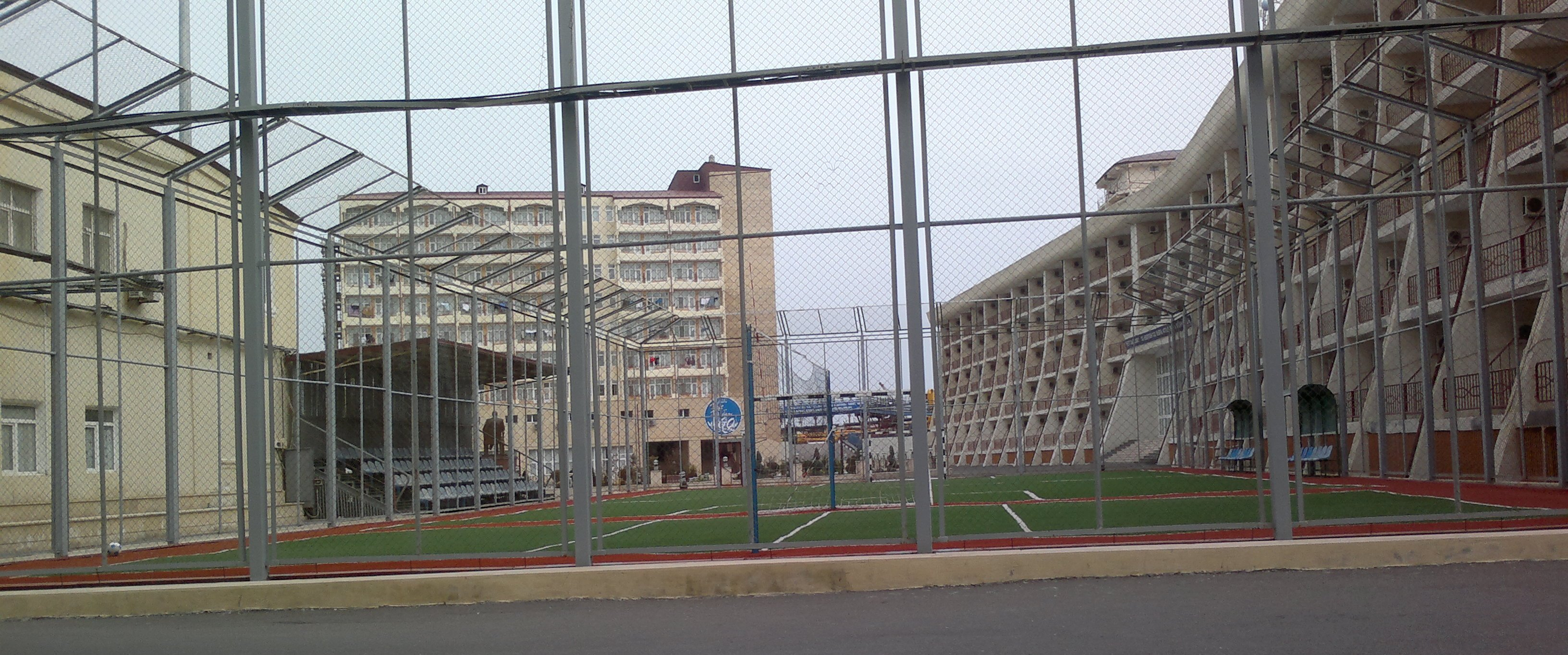 Football manege in Oil Rocks (Caspian Sea)